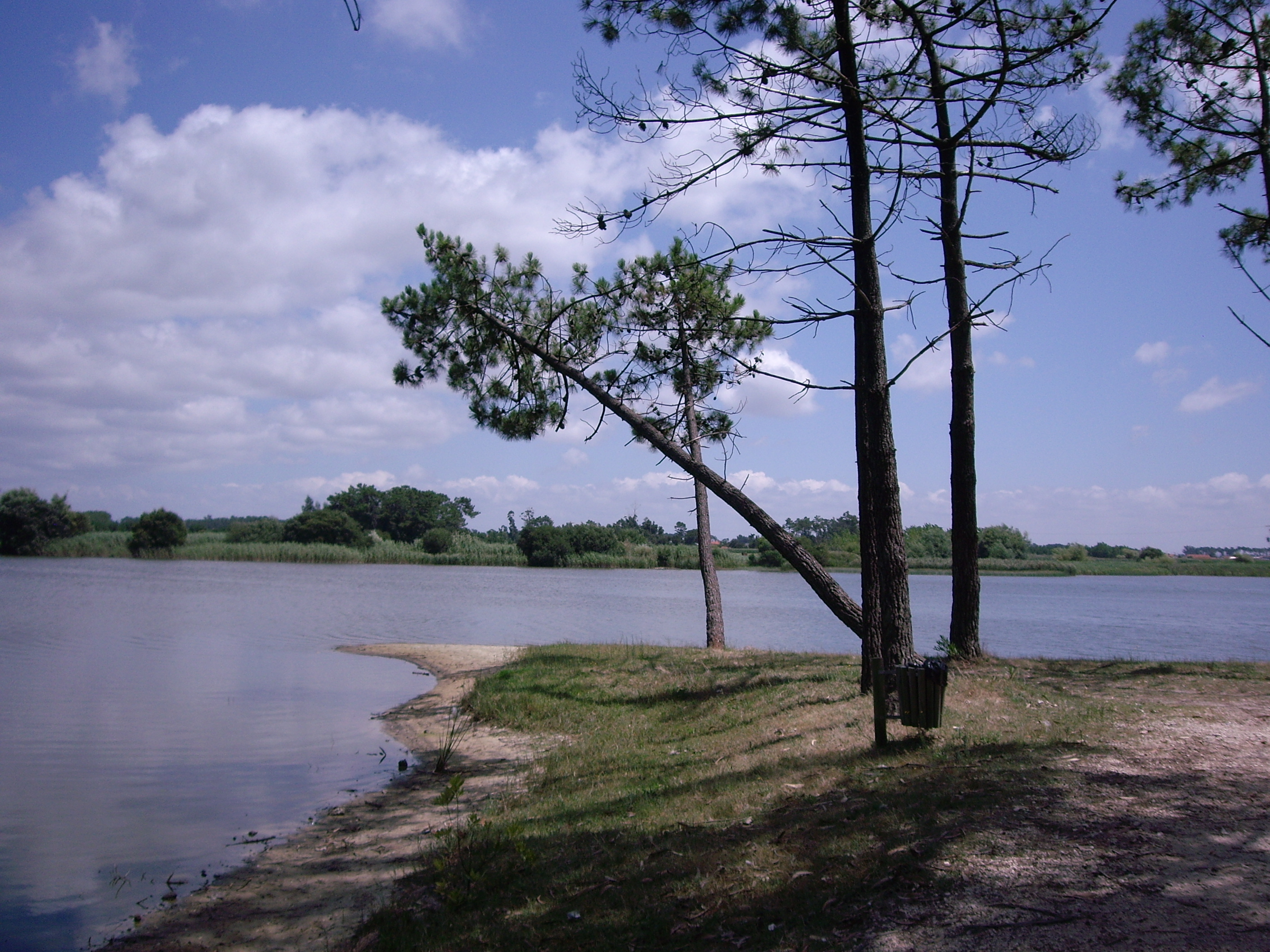 Lagoa da Vela